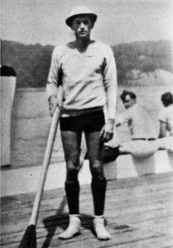 Gregory Peck in 1938